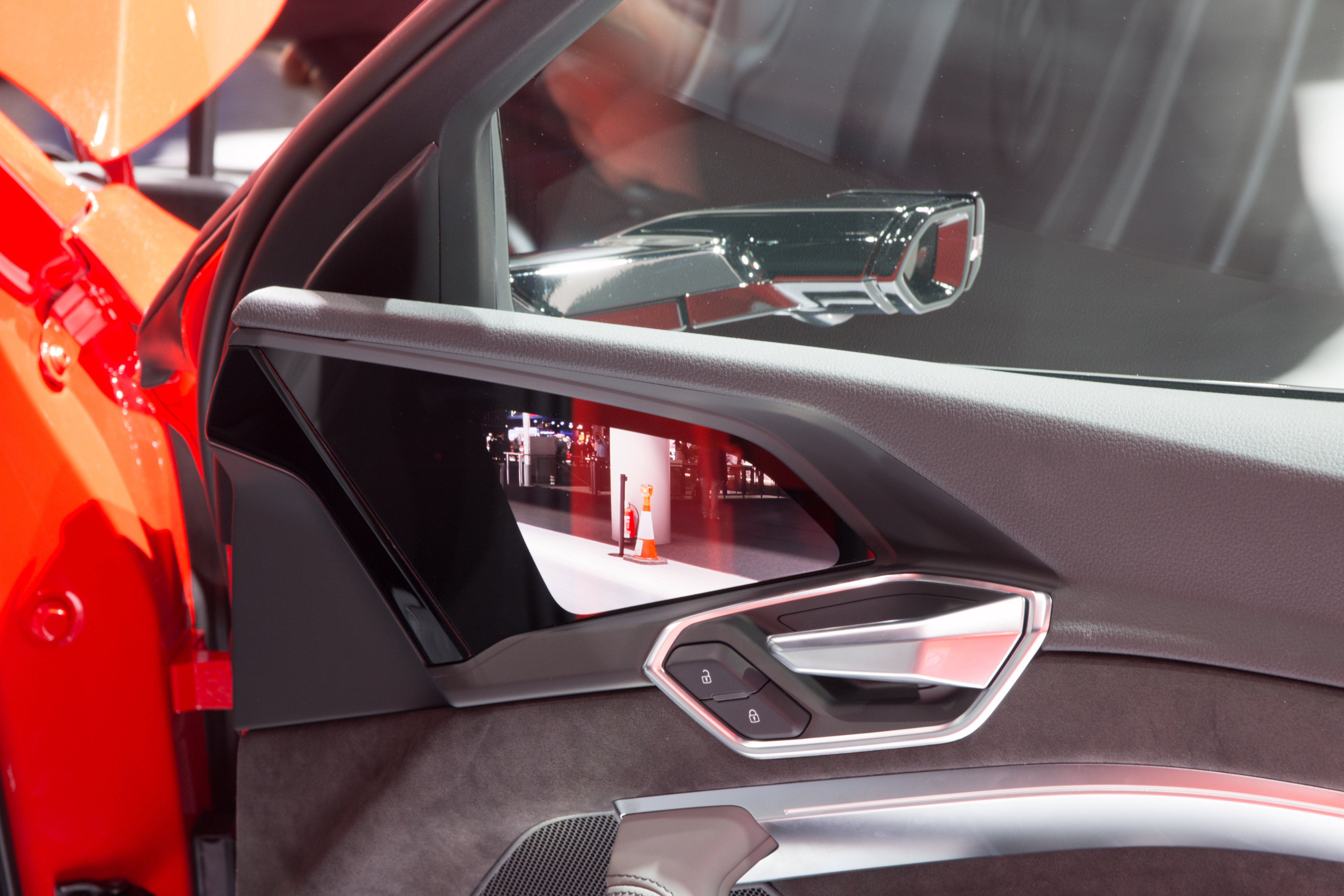 An Audi e-tron's mirrorcam at Frankfurt Motor Show 2019